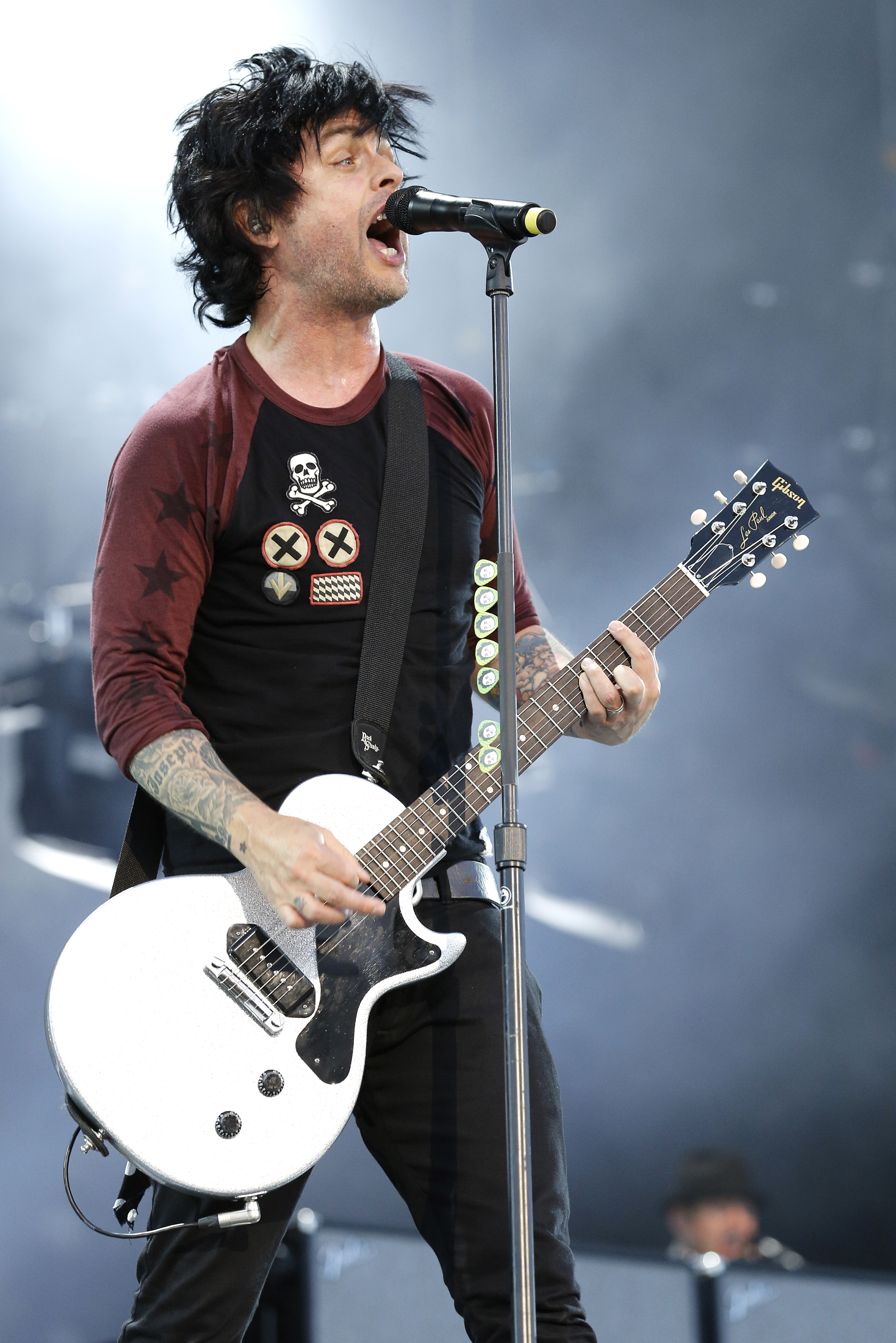 Billie Joe Armstrong, singer and guitarist of Green Day, stands on the Center Stage of Rock im Park-Festival 2013.